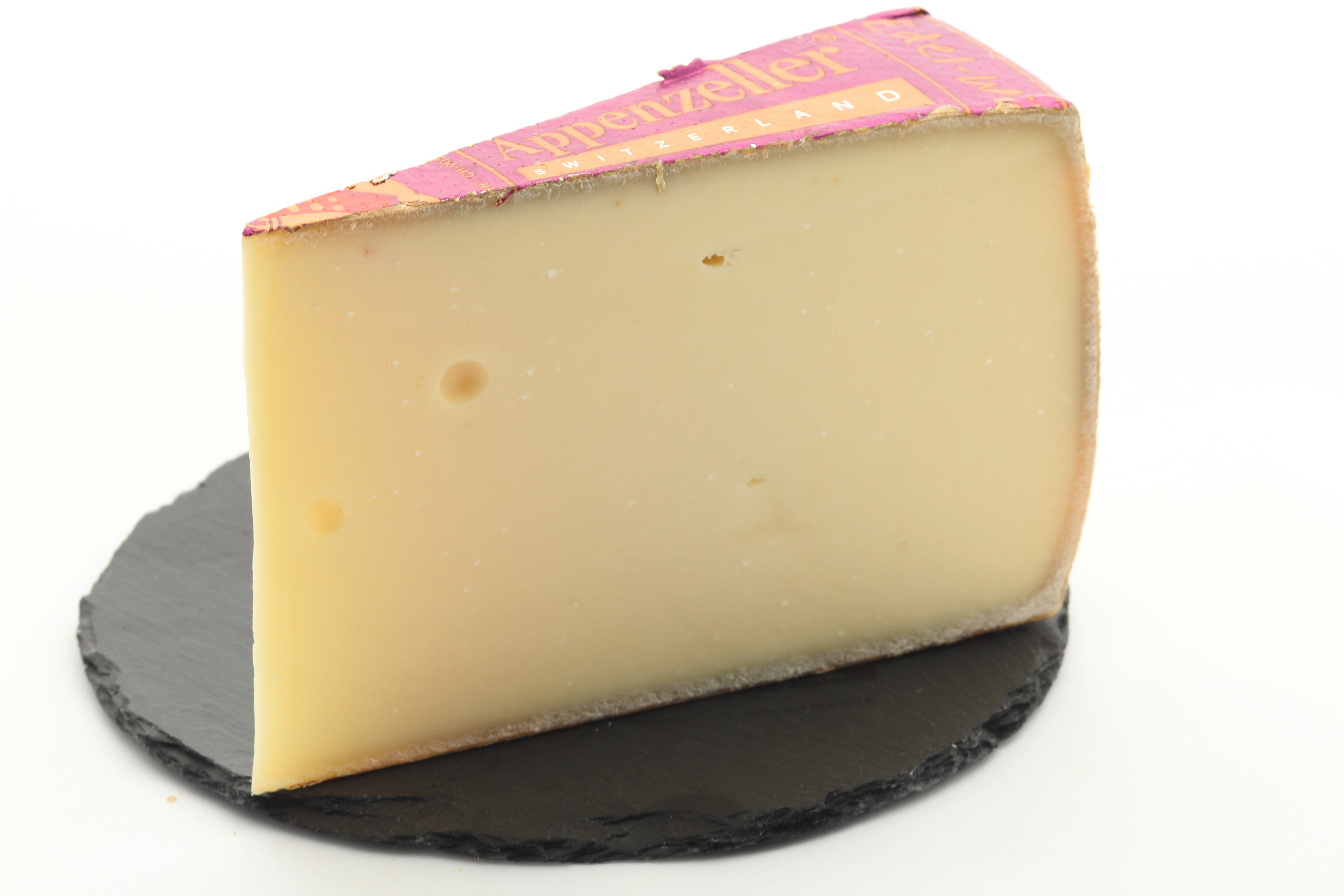 Appenzeller Edel-Würzig - Swiss semi-soft cheese, from whole raw cow's milk.